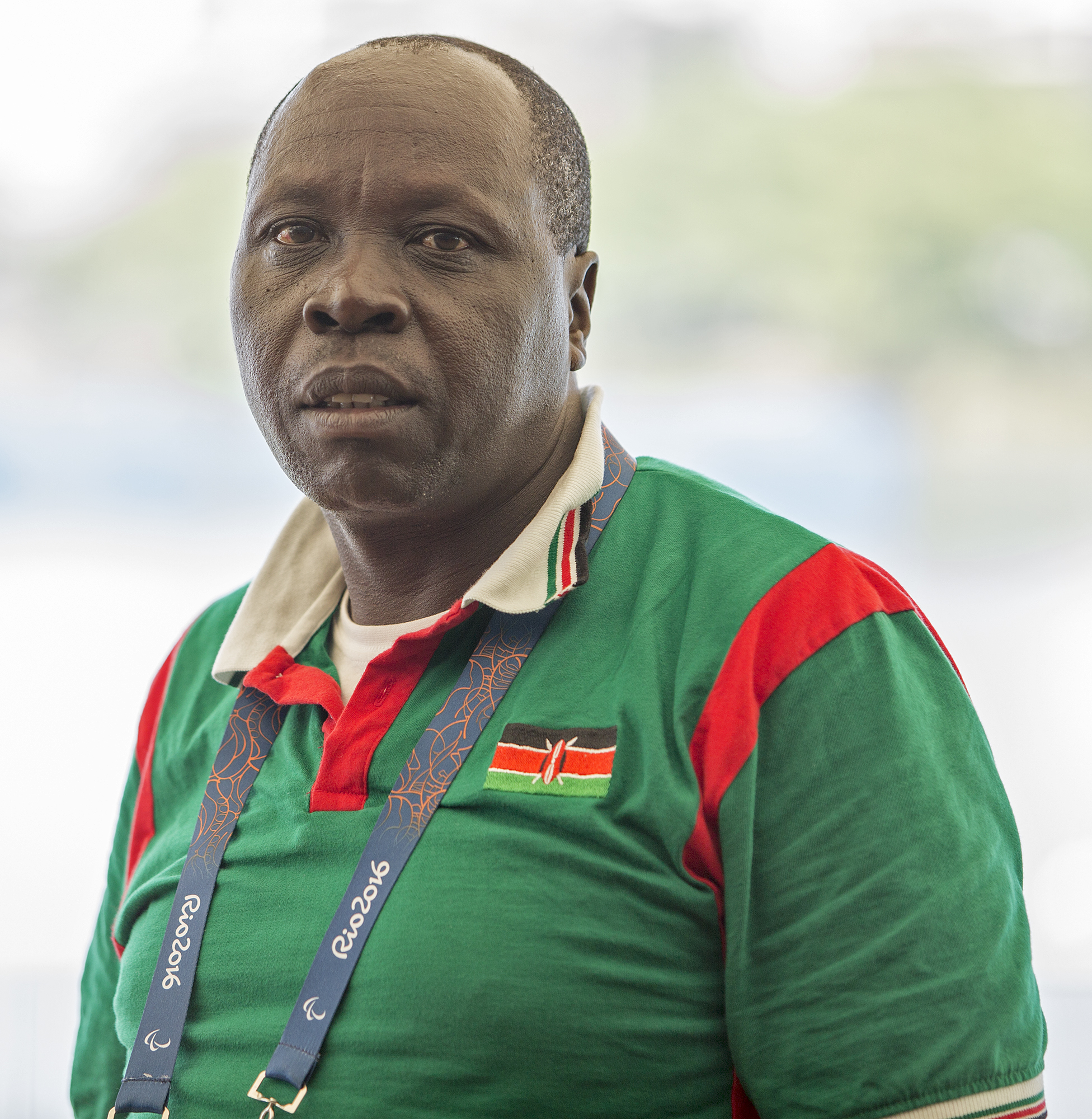 Marco Galeon, Kenyan rower.